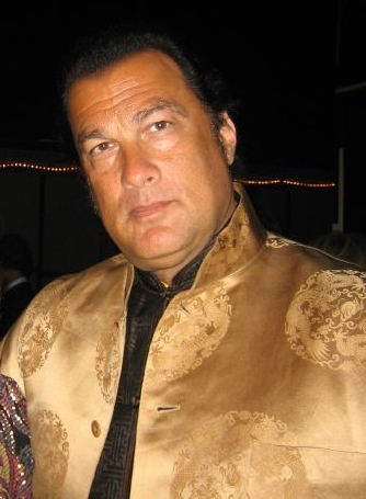 Steven Seagal at the Pollstar Awards in February 2006